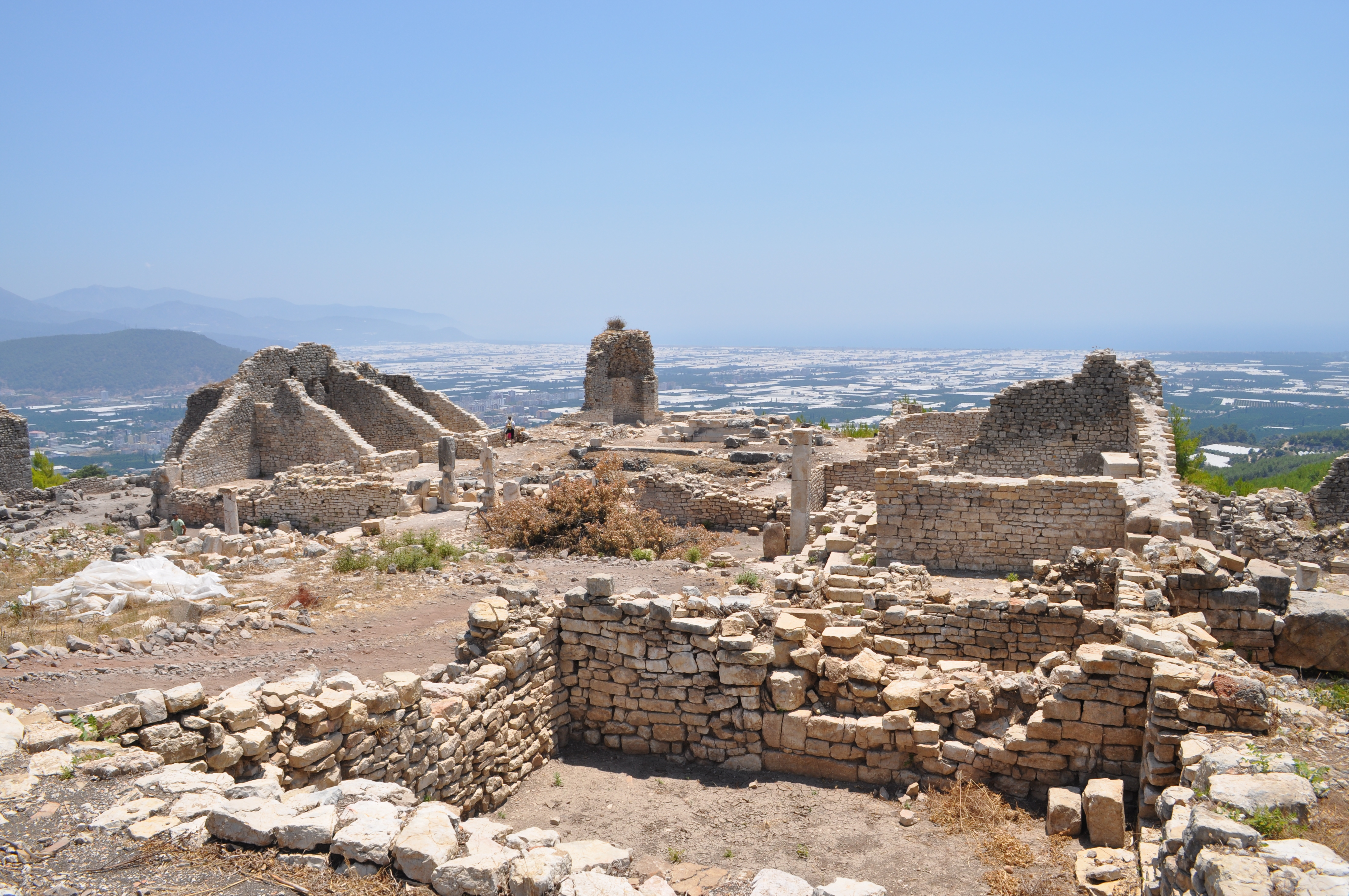 Ancient town of Rhodiapolis